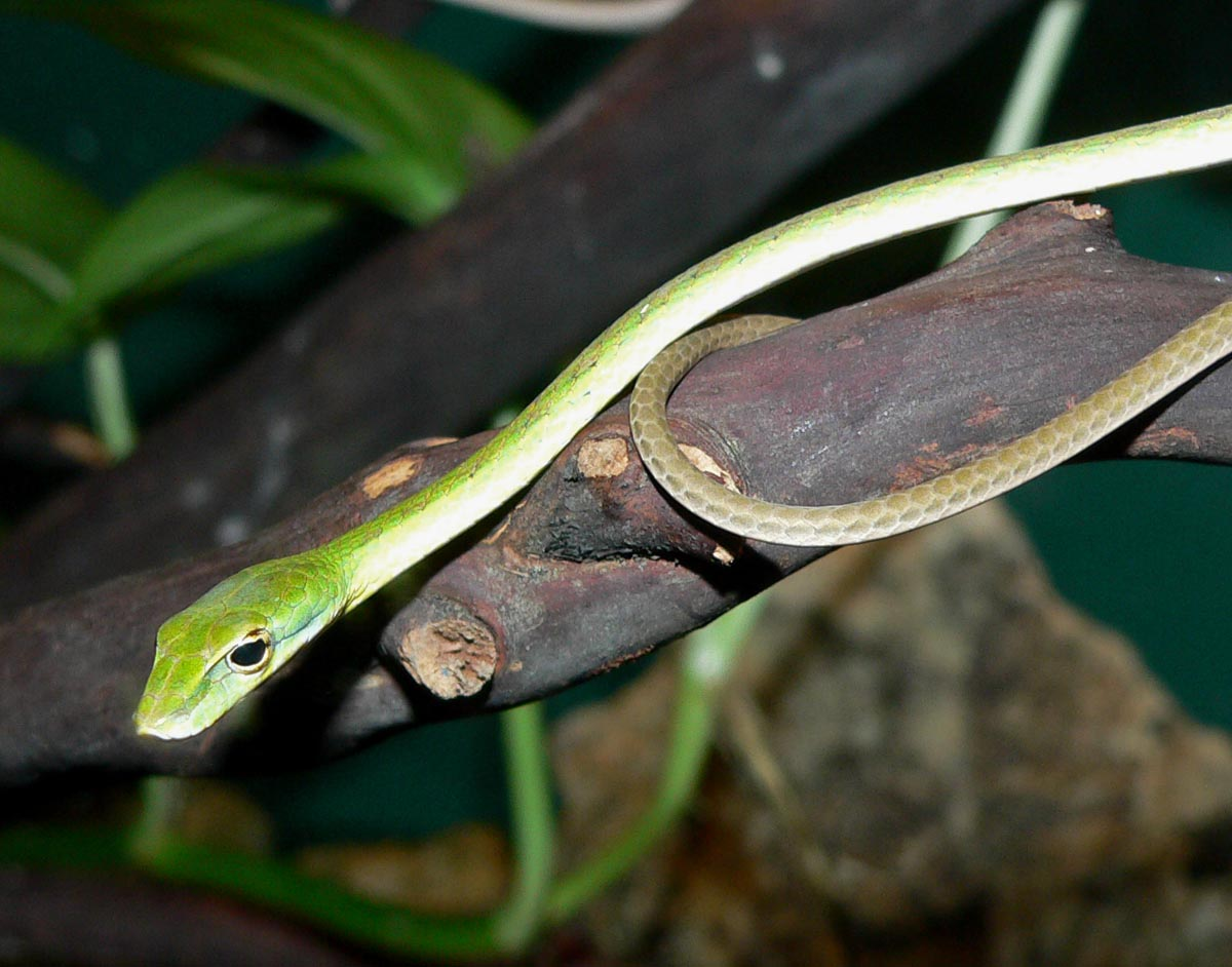 Photo of Ahaetulla fronticincta (Gunther's whipsnake) at the Steinhart Aquarium in San Francisco